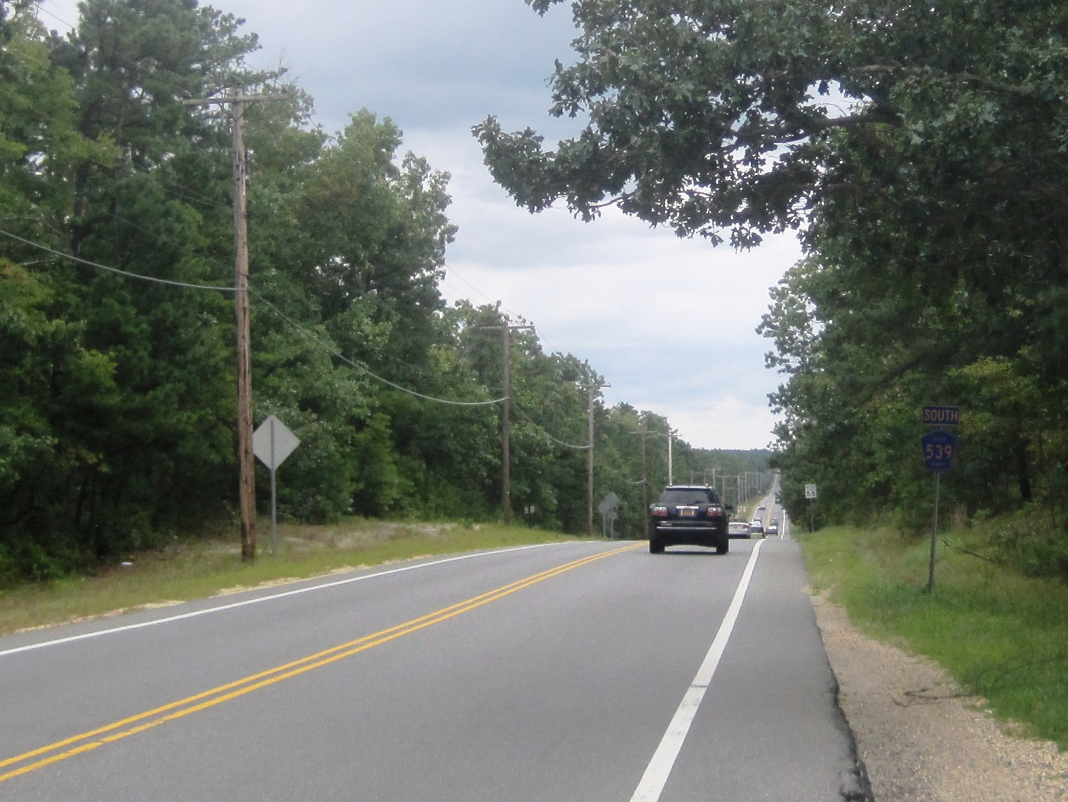 Photo of a rural section of County Route 539 in Manchester Township, New Jersey. The location is facing southbound past Horicon Avenue. This section runs through the Pine Barrens and has a speed limit of 55 miles per hour (see sign in background), a rarity on two-lane New Jersey roads.